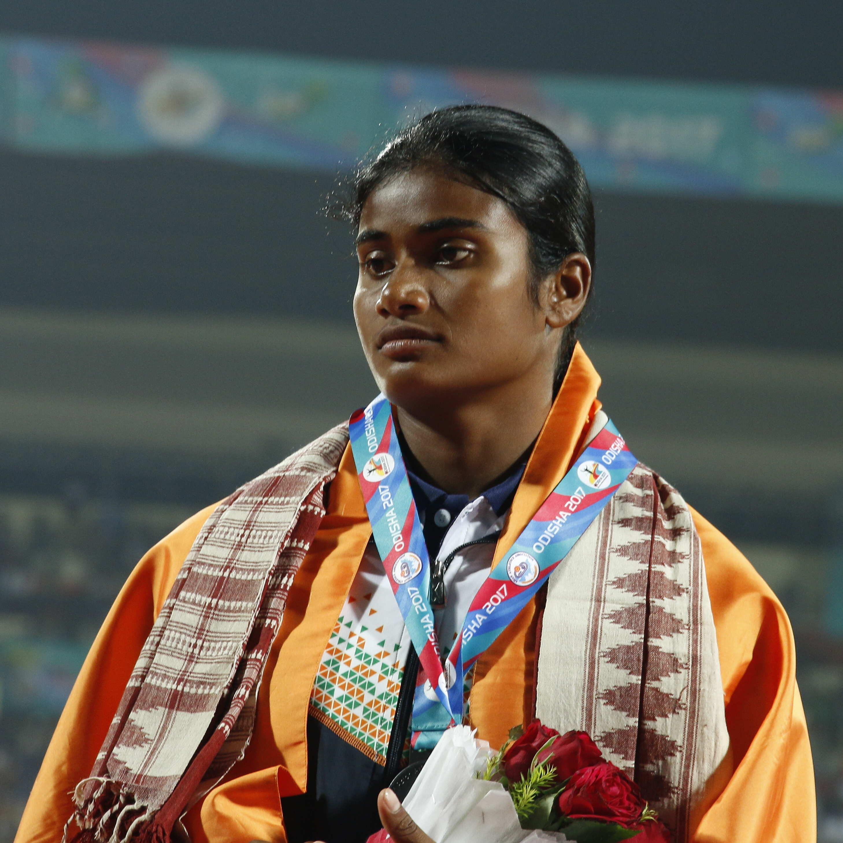 Athletes during 22nd Asian Athletics Championships in Bhubaneswar.